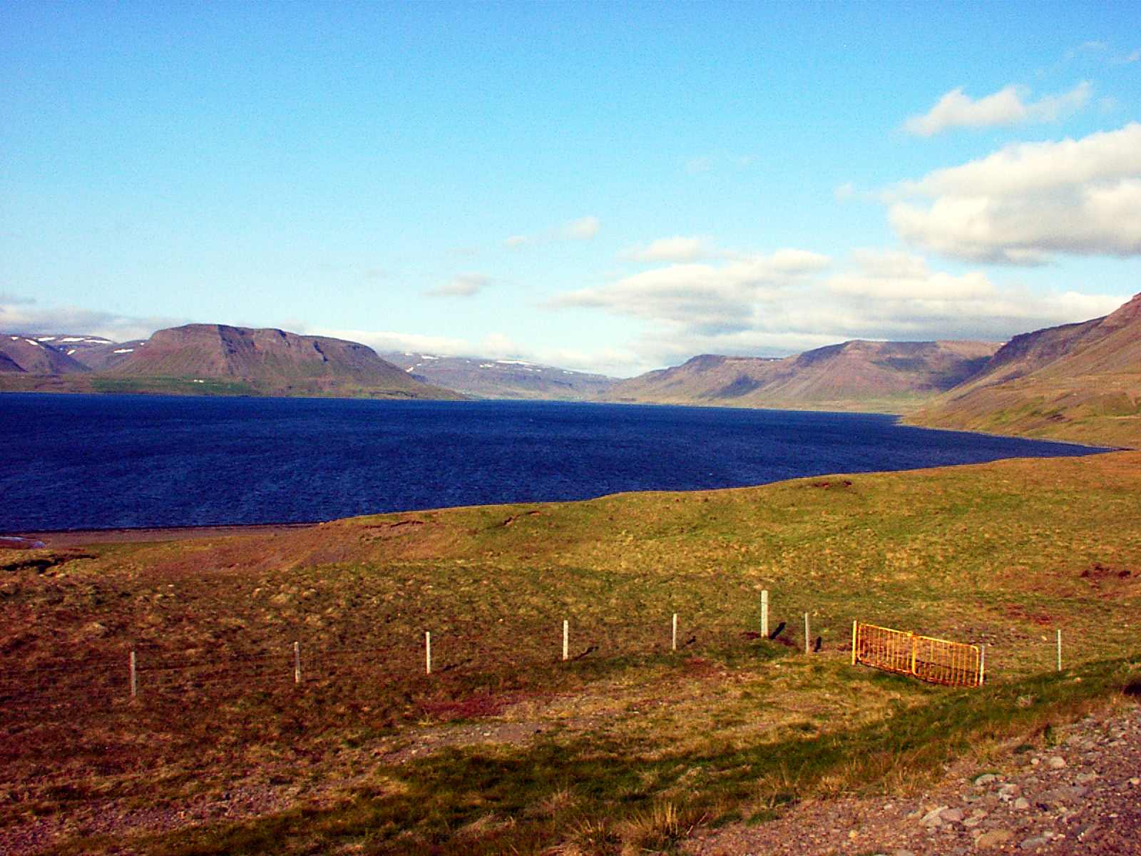 Gilsfjörður in Iceland